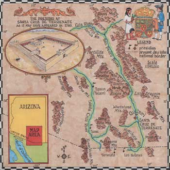 Map illustration and artist's rendering of the Presidio Santa Cruz de Terrenate. Built by the Spanish from 1775-1776 and abandoned in 1780. Rendering of the presidio as it might have looked at completion. Art by Joel Ramirez.